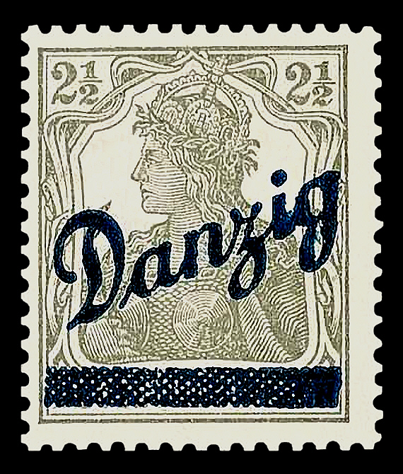 Germania stamps with overprints Ausgabepreis: 2 1/2 Pfennig First Day of Issue / Erstausgabetag: 30. August 1920 Michel-Katalog-Nr: 33 (Danzig) (auf 98 Deutsches Reich)